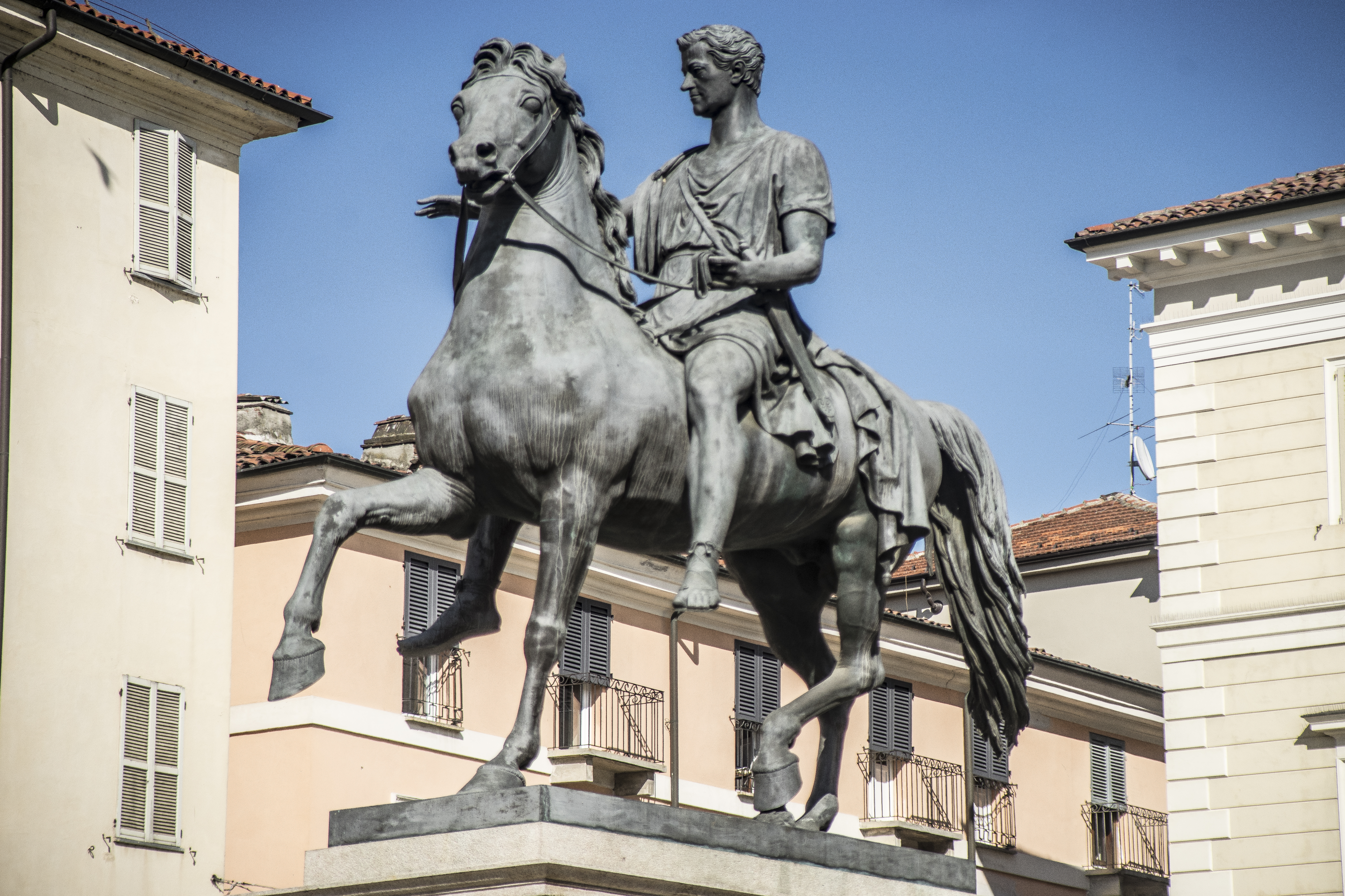 This is a photo of a monument which is part of cultural heritage of Italy.